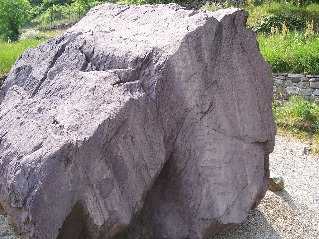 Rock 2. Parco archeologico nazionale dei Massi di Cemmo. Cemmo, Capo di Ponte, Italy